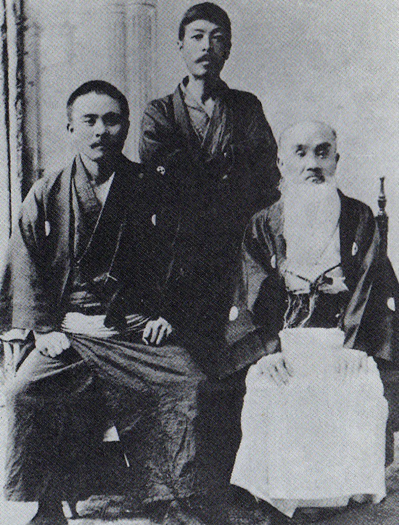 Front,left to right,Saigō Shirō,Saigō Tanomo